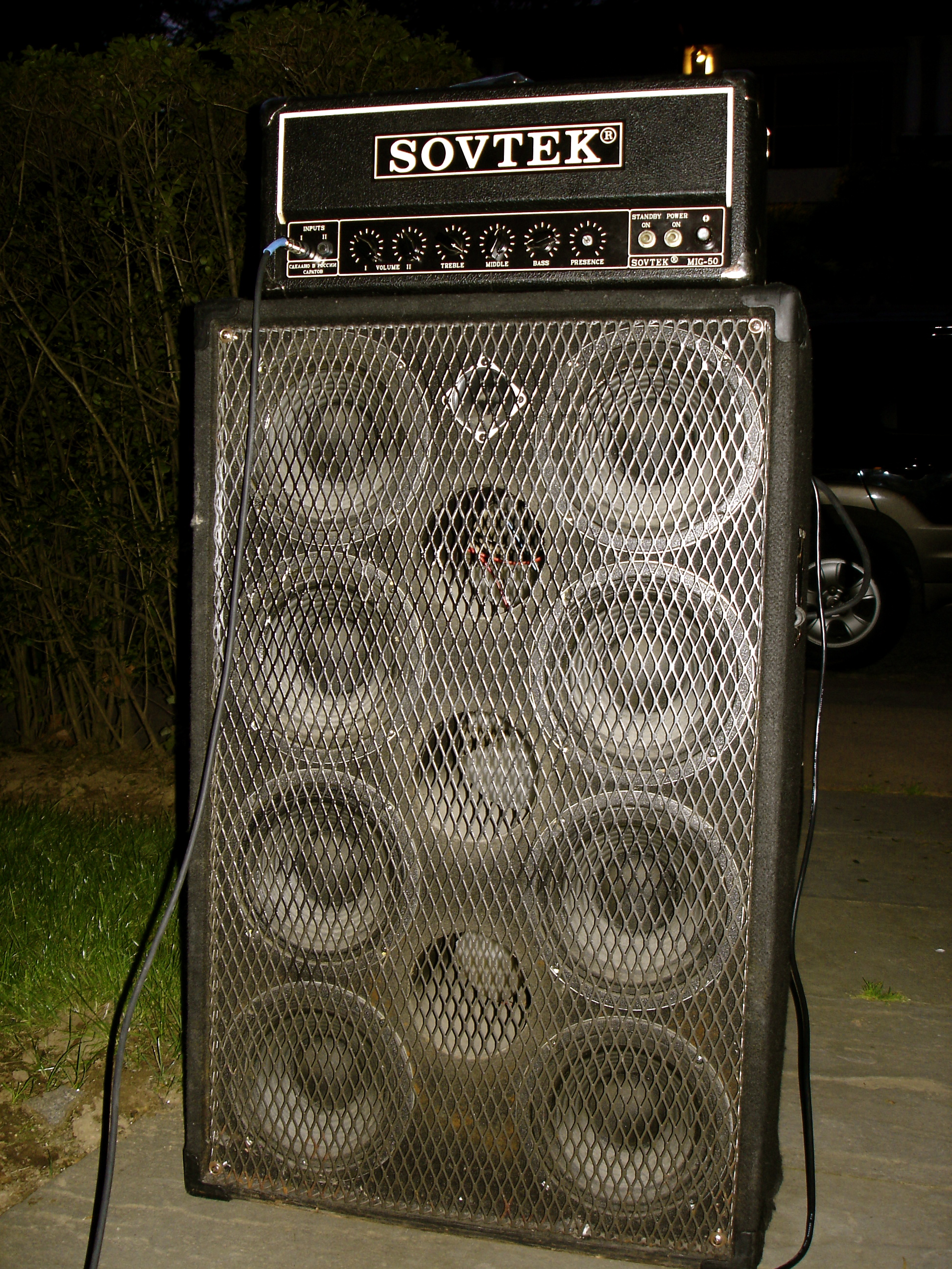 Photographer: Peter J. Romano 2nd Taken on June 15 2006